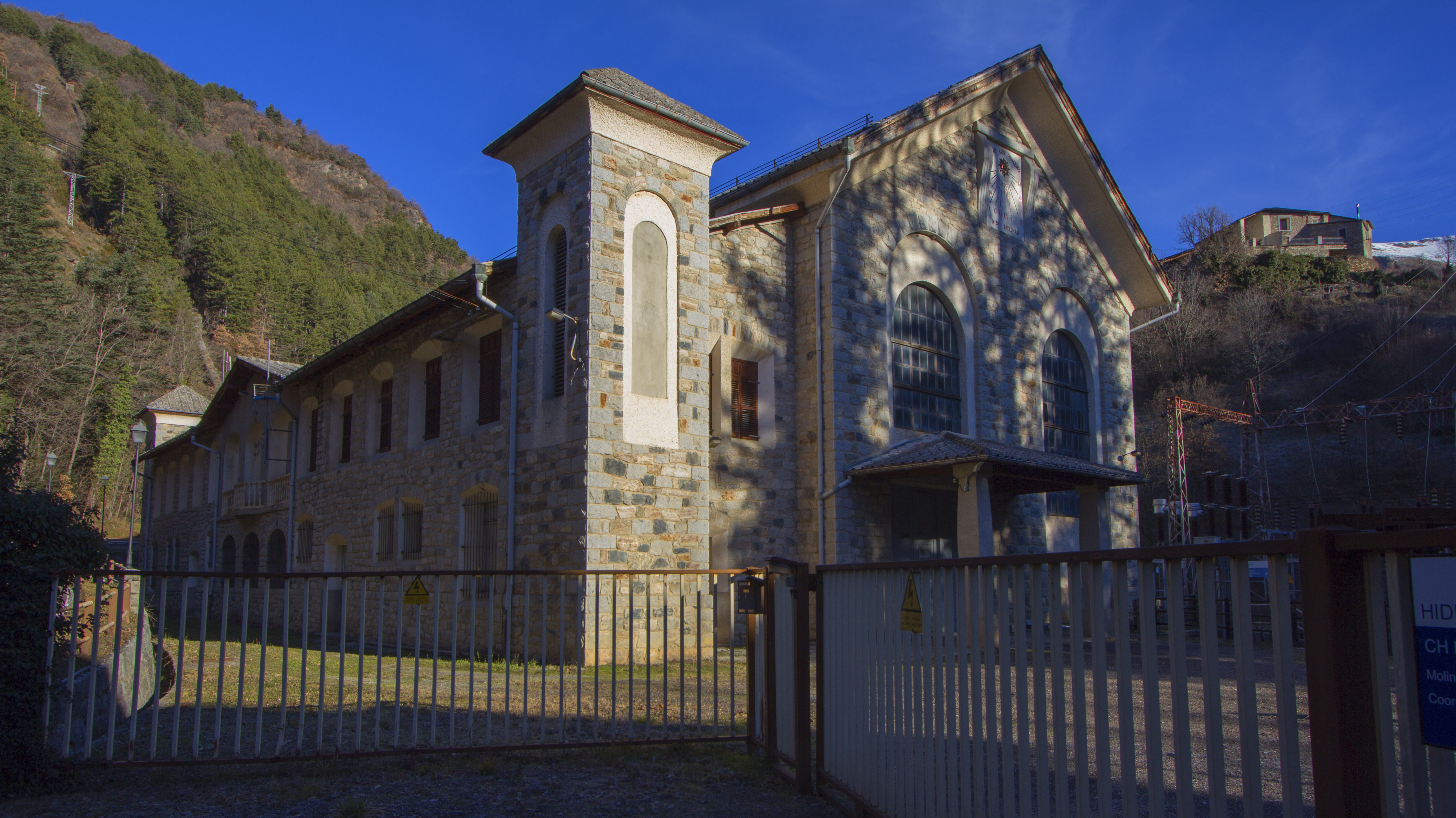 Molinos hydropwer plant. Main building. Torre de Capdella (Catalan Pyrenees)